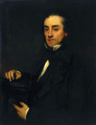 Sir Francis Pettit Smith, English marine engineer. Oil painting on canvas by Sir William Boxall.